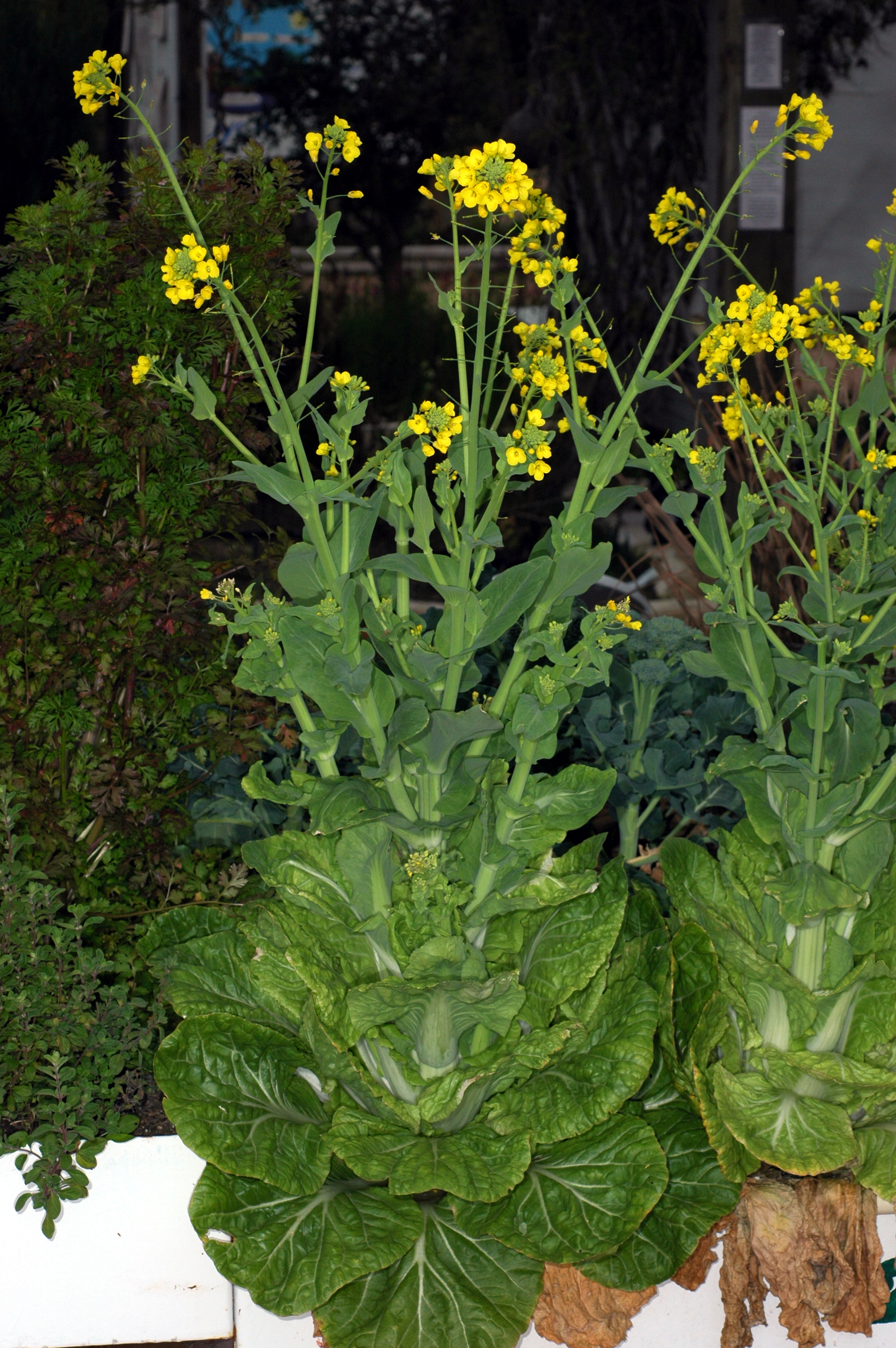 Texas A&M University Horticultural Garden, College Station TX